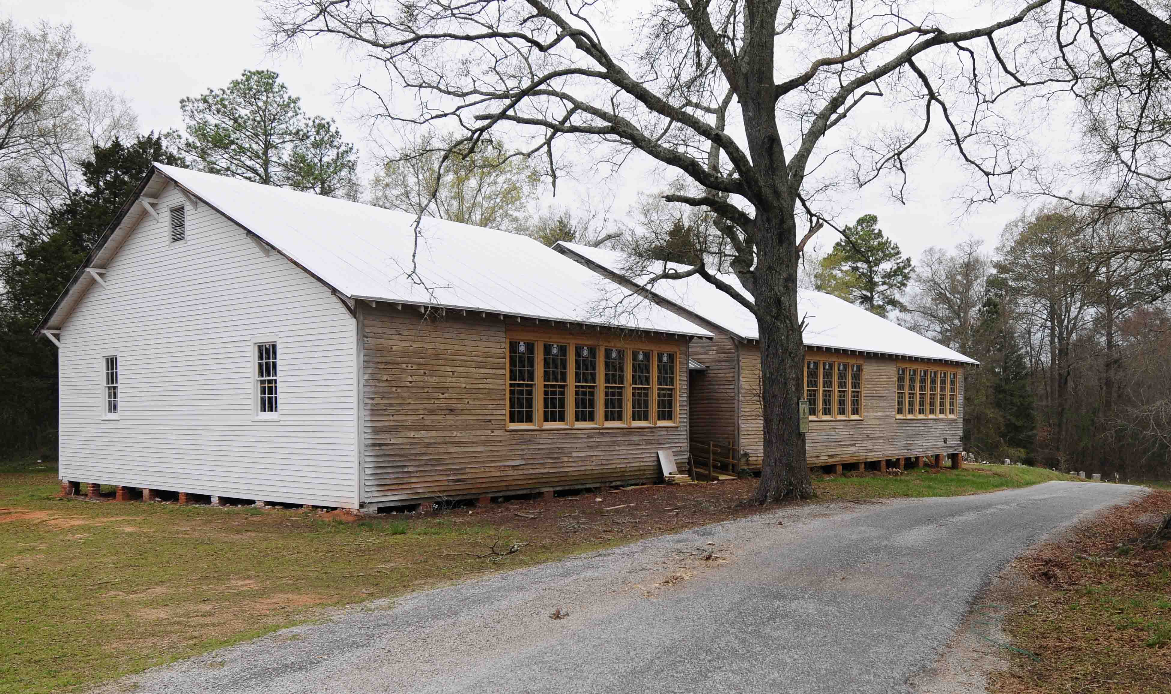 Howard Junior High SchoolProsperity, South Carolina